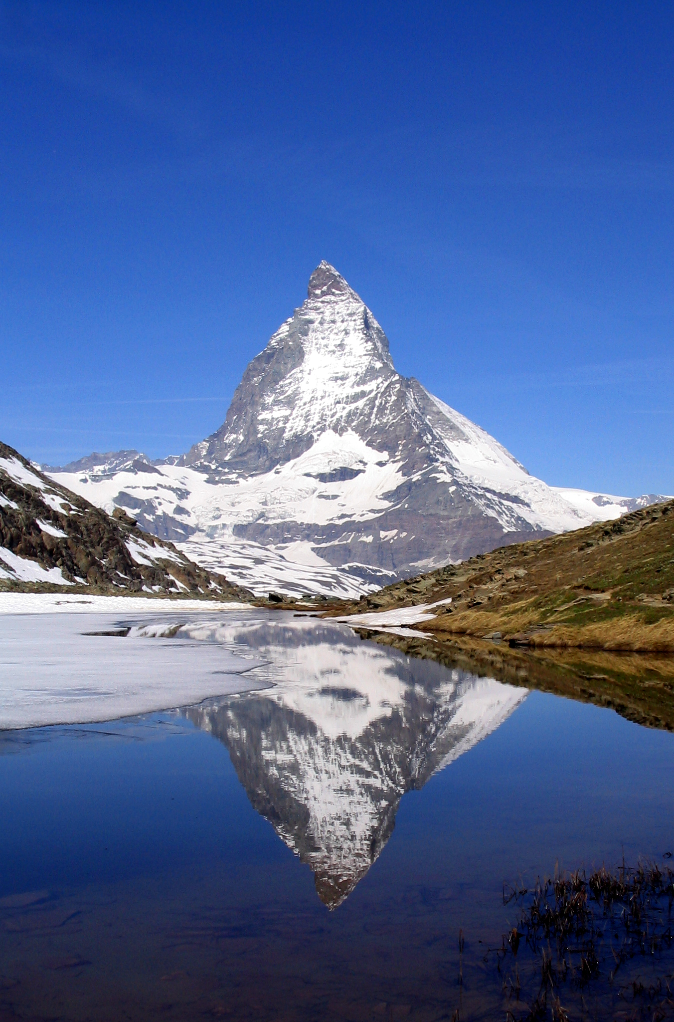 Matterhorn (4,478 m, Walliser Alps, East side) mirrored in Riffelsee, photograph taken from shore of lake Riffelsee.